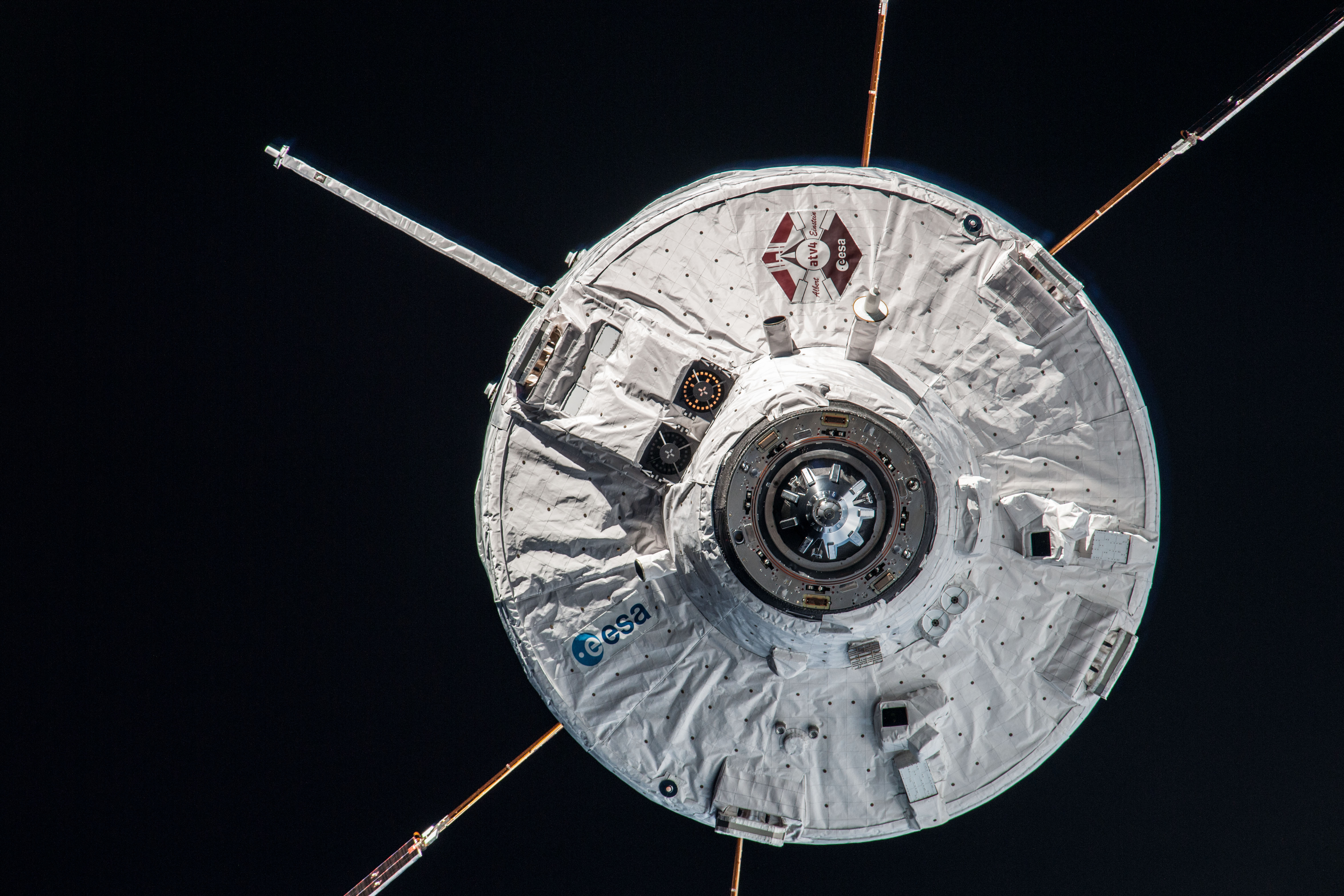 Surrounded by the blackness of space, the European Space Agency's Automated Transfer Vehicle-4 (ATV-4) "Albert Einstein" approaches the International Space Station. The spacecraft went on to successfully dock to the orbital outpost at 2:07 GMT, June 15, 2013, following a ten-day period of free-flight.